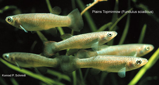 Plains Topminnow - Fundulus sciadicus - a minnow found in the Midwest and Rocky Mountains regions of the United States.